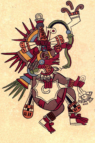 Published in the Codex Borbonicus, 16th century, author unknown.